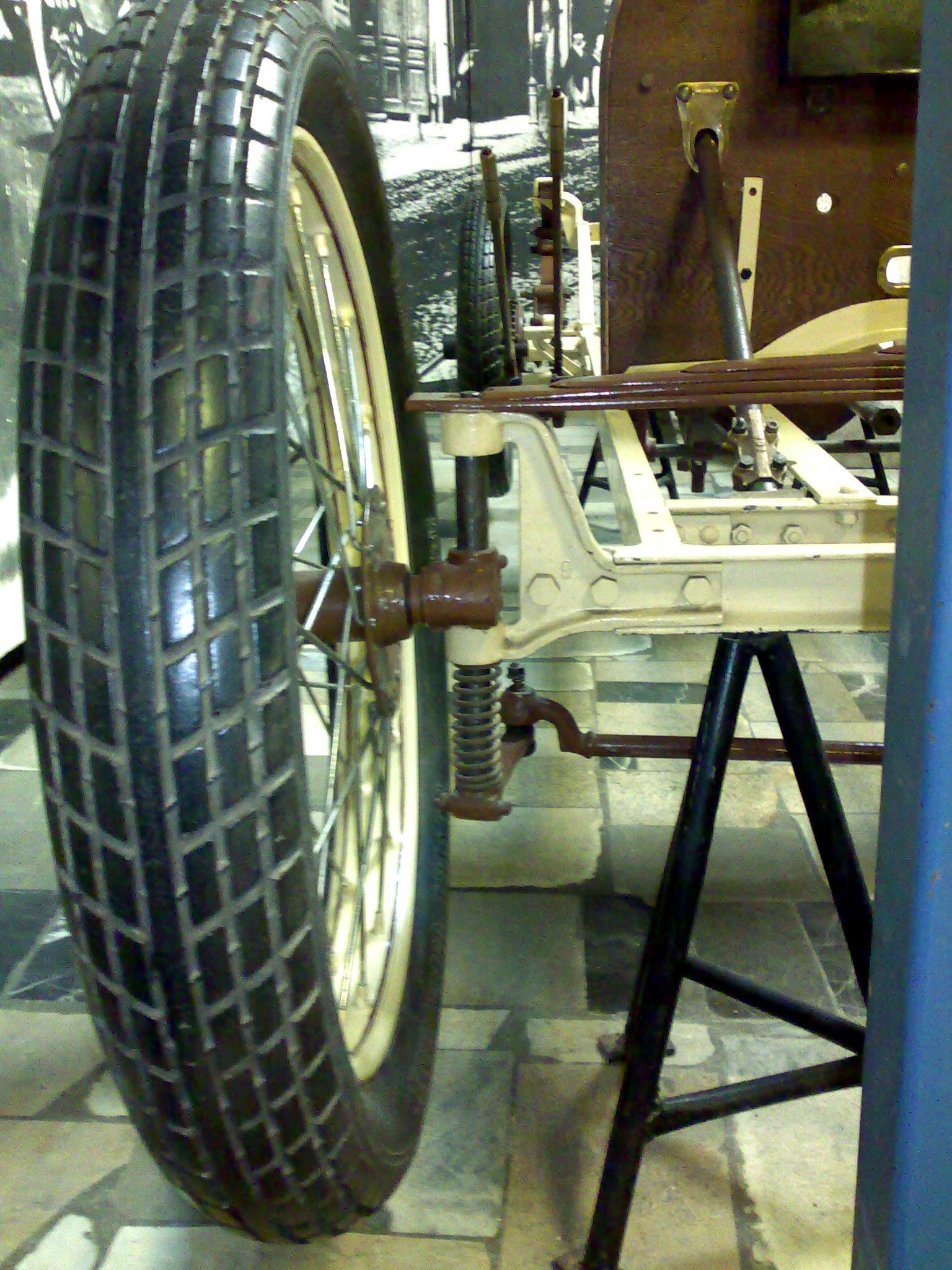 Fournier Voiturette BaBy Type 1912 "sliding pillar" front supension